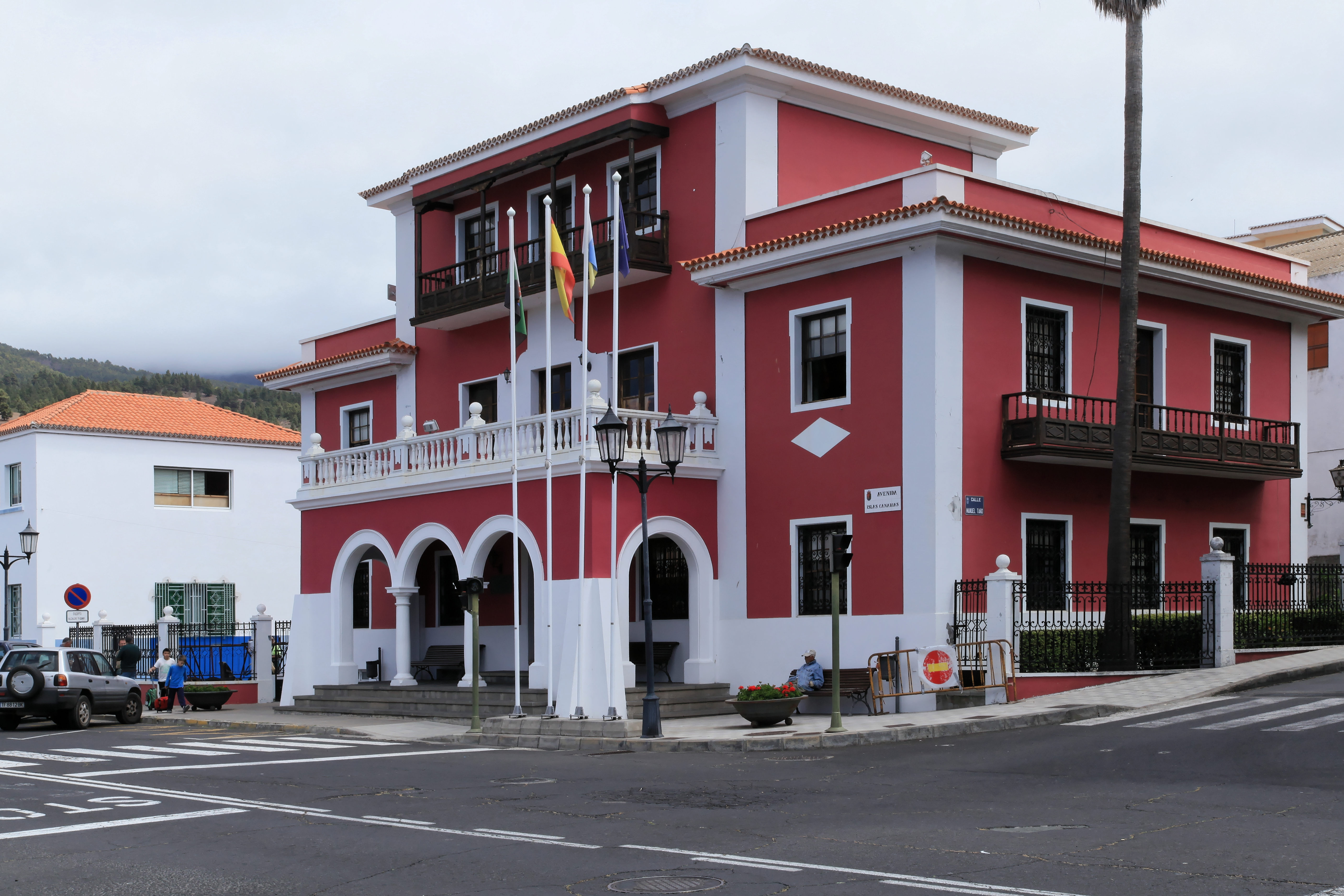 Town hall, Avenida Islas Canarias in El Paso, La Palma, Canary Island, Spain